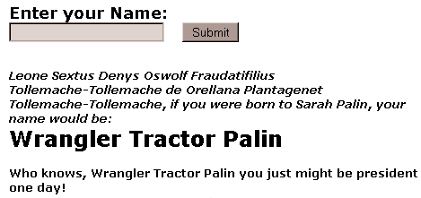 Example of a web name generator.